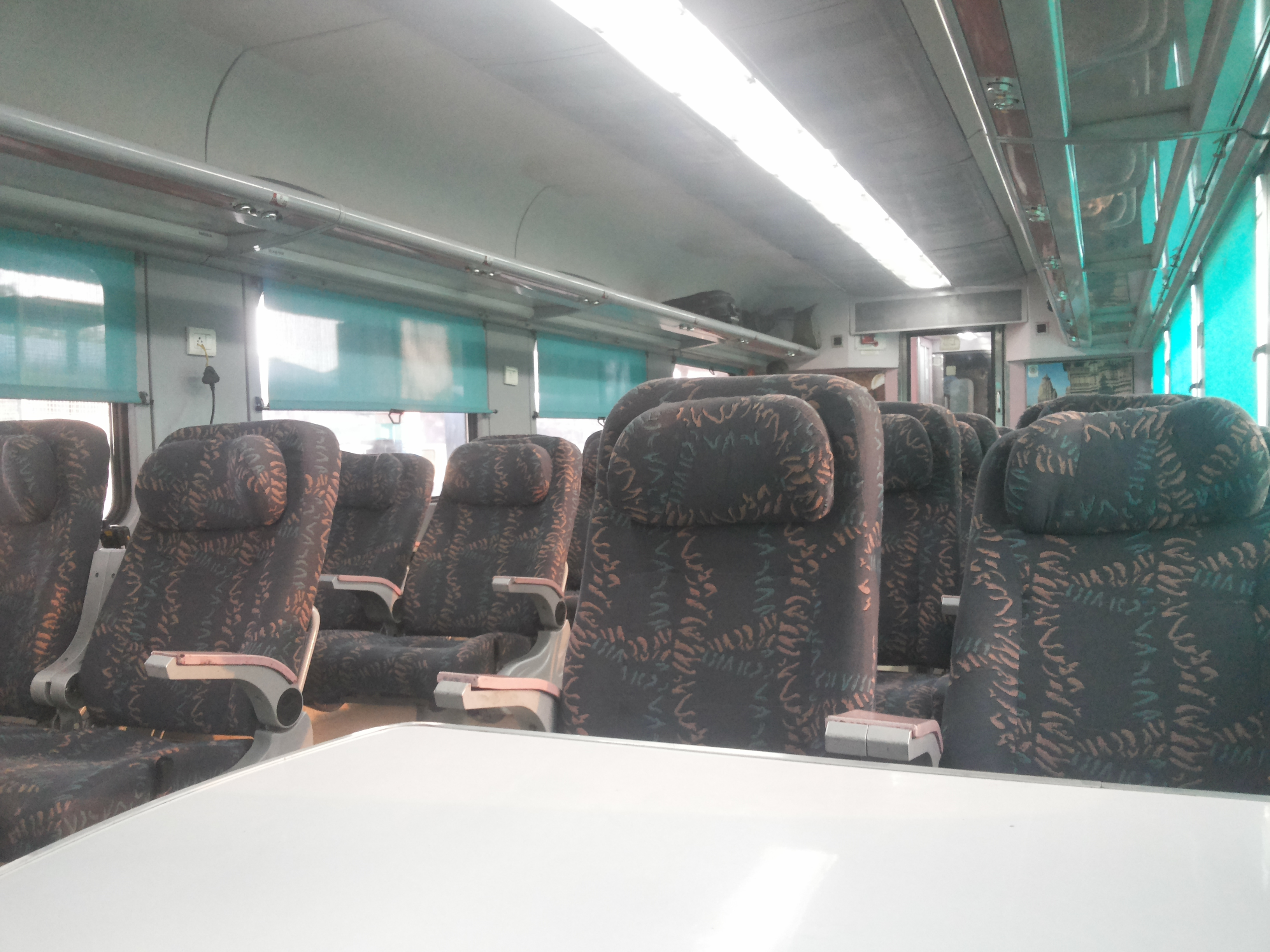 This is a pic of the interior of executive class or 1A of Dehradun Shatabdi Express.